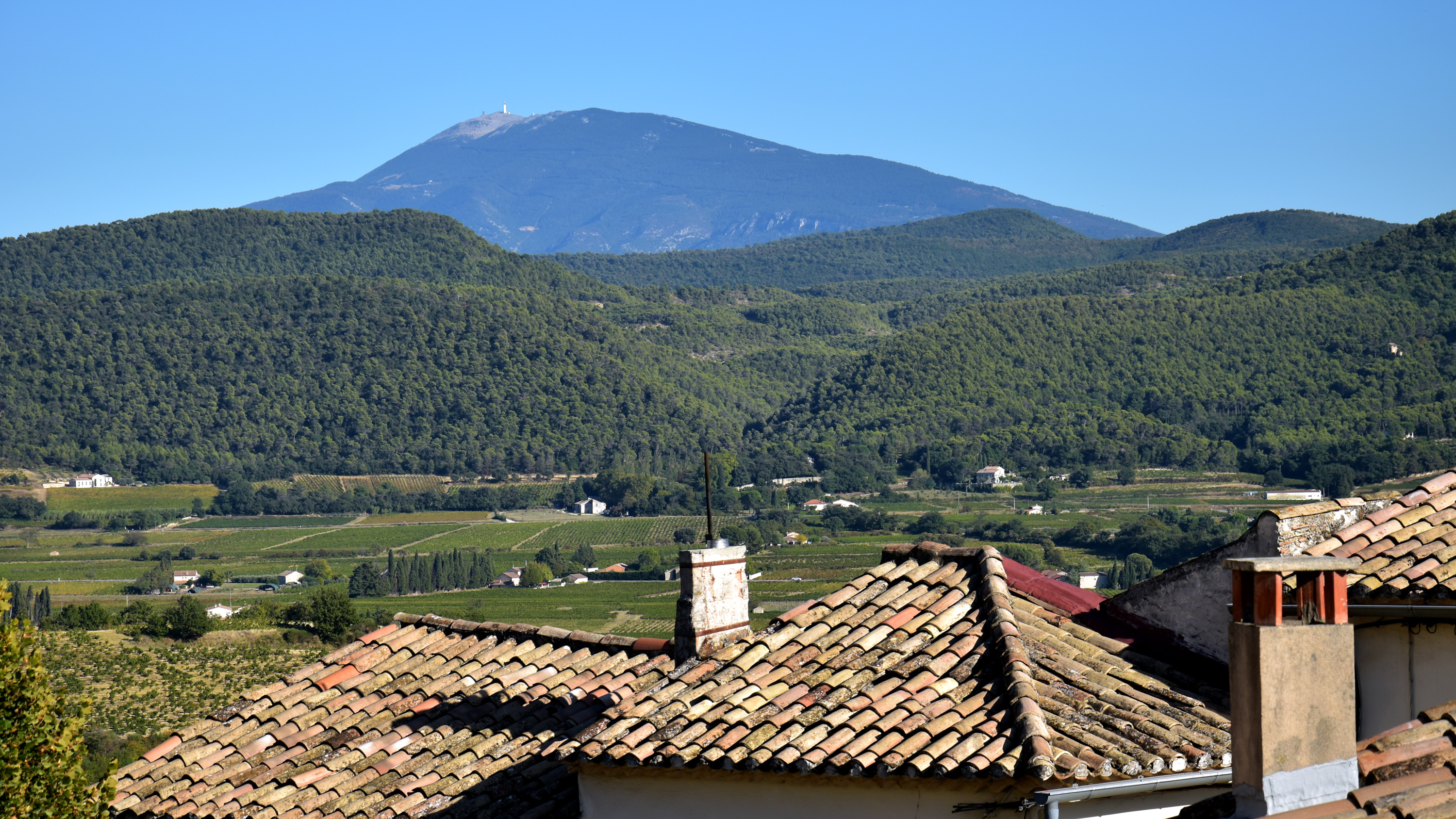 Rasteau, view to Mont Ventoux